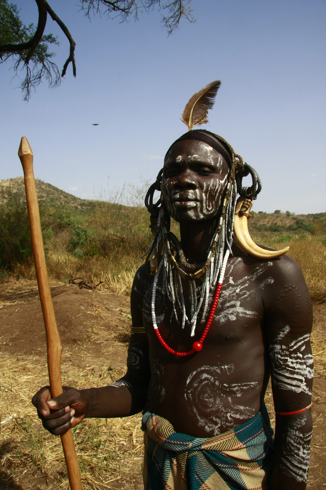 Shots depicting the Lower Valley of the Omo River, UNESCO World Heritage Site, and inhabitants of Southern Ethiopia.